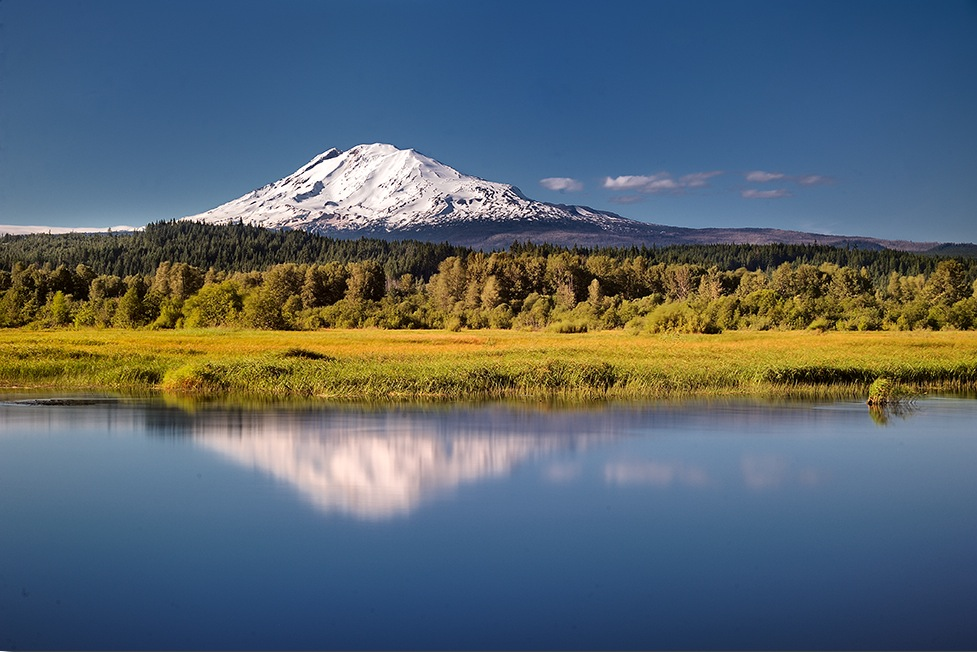 We went in search of the famous 'Trout Lake' - but arrived at a creek. Nobody seemed to know where this 'lake' was. We saw a trail and hiked along it for a bit and came to a campground after a couple of miles. It was there that we found out that the lake dried up in the 70s. I had to make do with a long exposure on the creek to simulate a 'lake'.